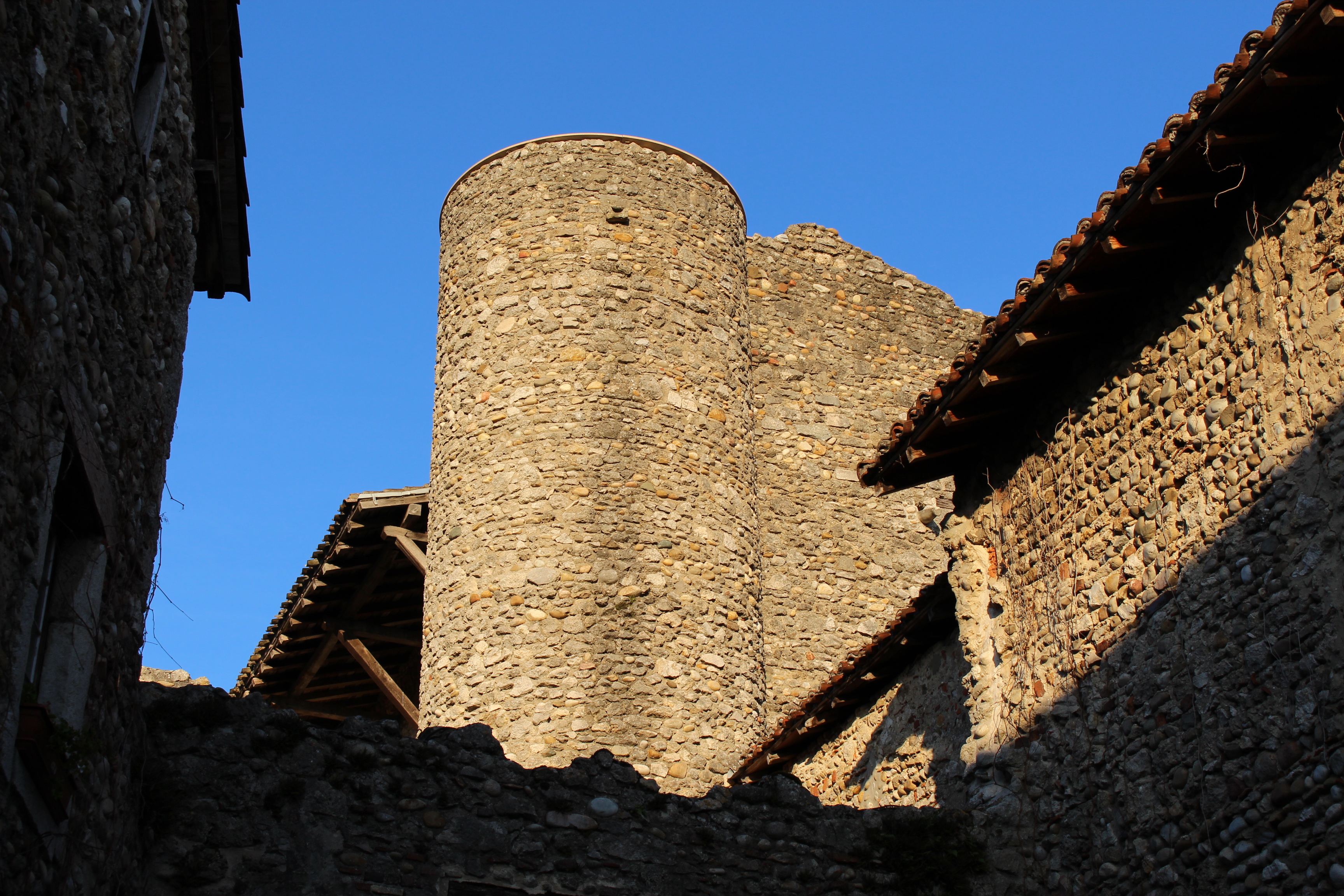 The Tower of Pérouges (Ain, France).